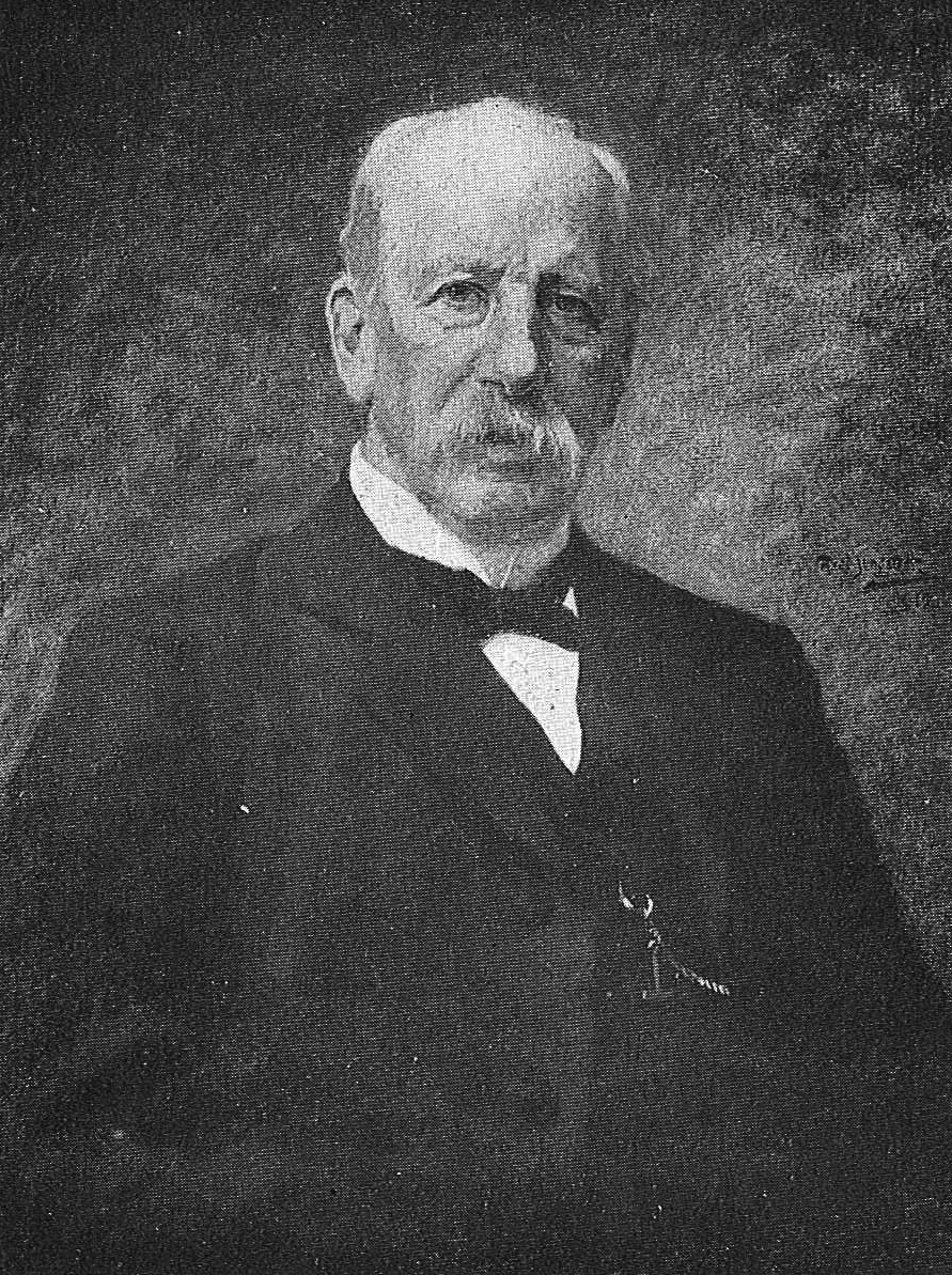 Oscar Montelius (1843-1921), Swedish archaelogist and director of the en: Swedish National Heritage Board.